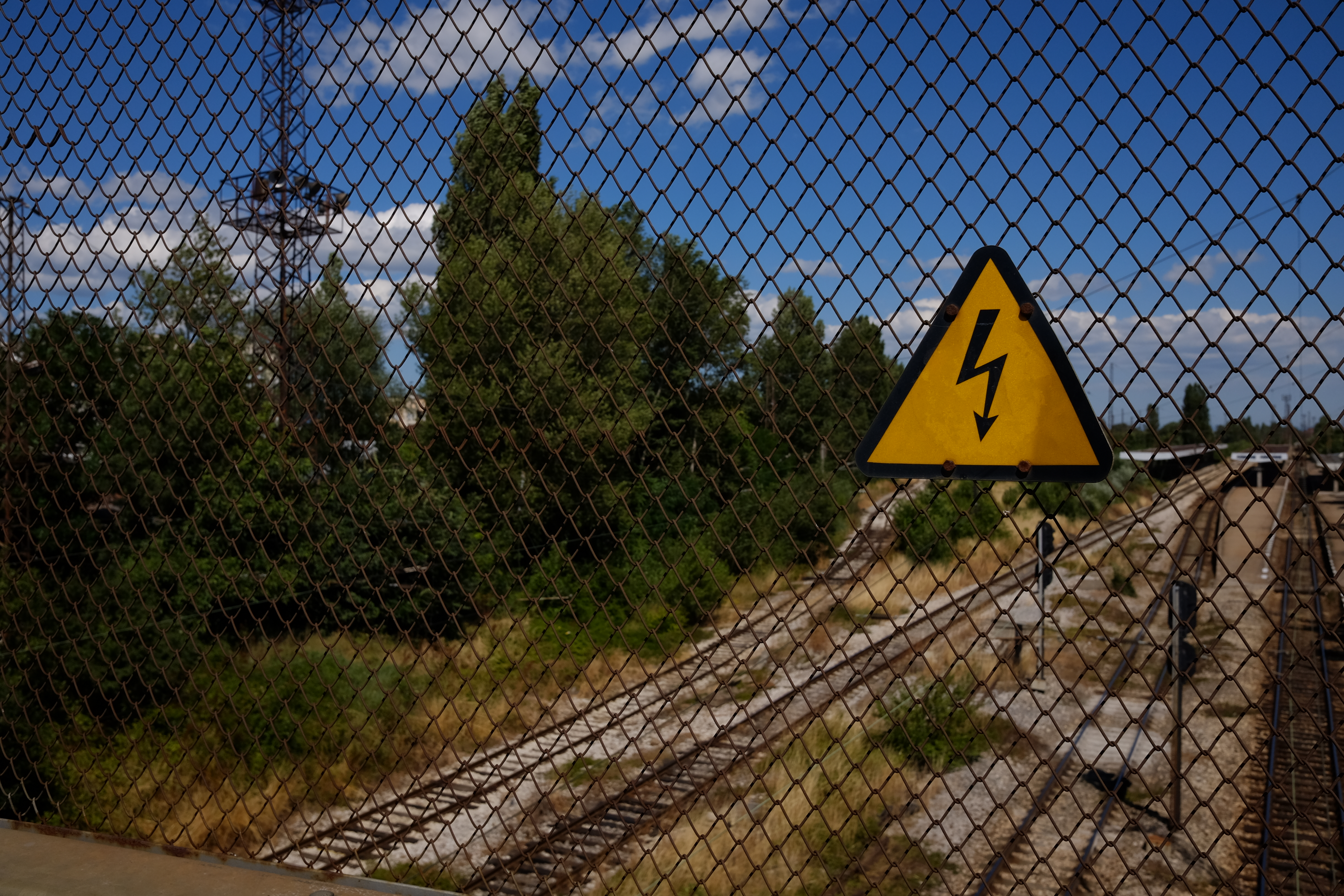 Image of a sign for high voltage above railway electrification system